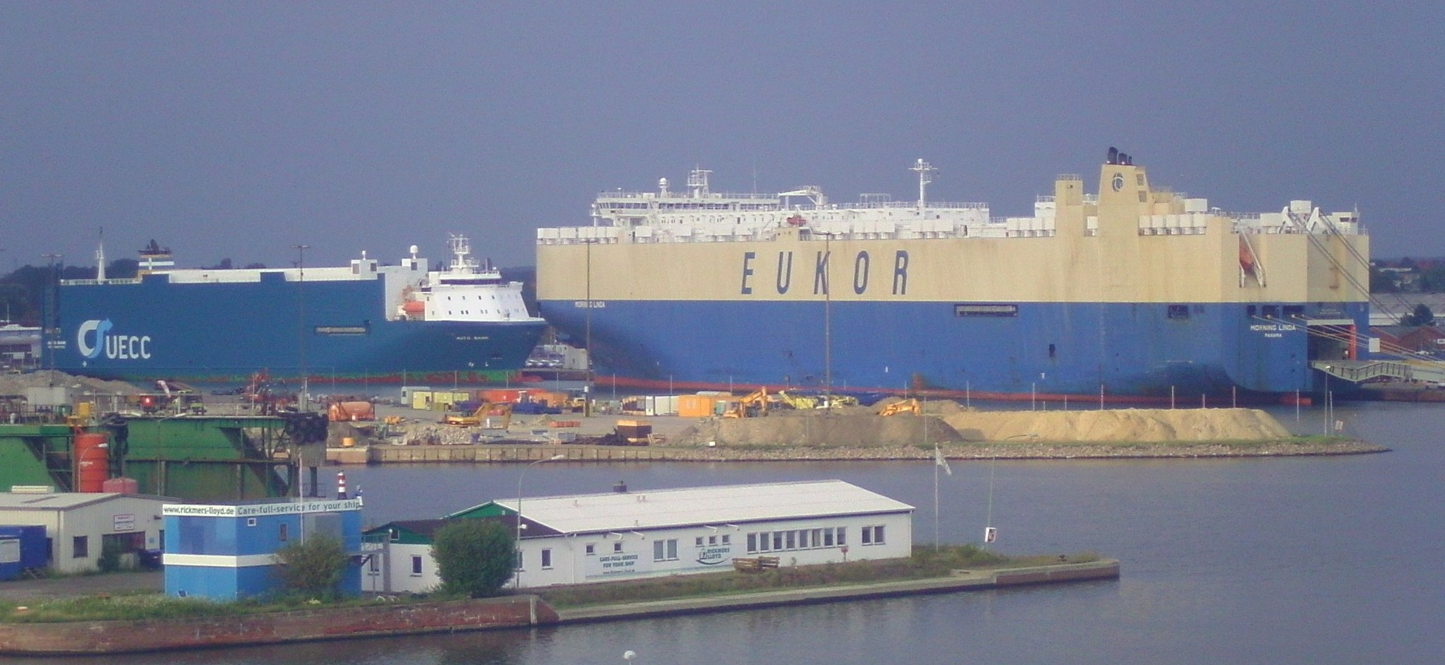 The car carriers Auto Bank (on the left) and Morning Linda in the port of Bremerhaven, Germany